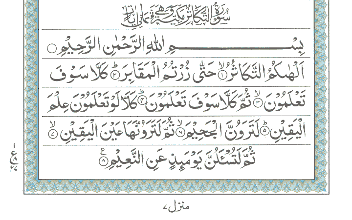 Surah At-Takathur [102]